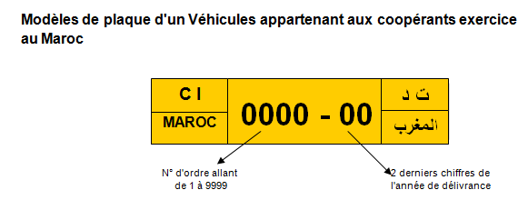 Plaque de Circulation Internationale C.I